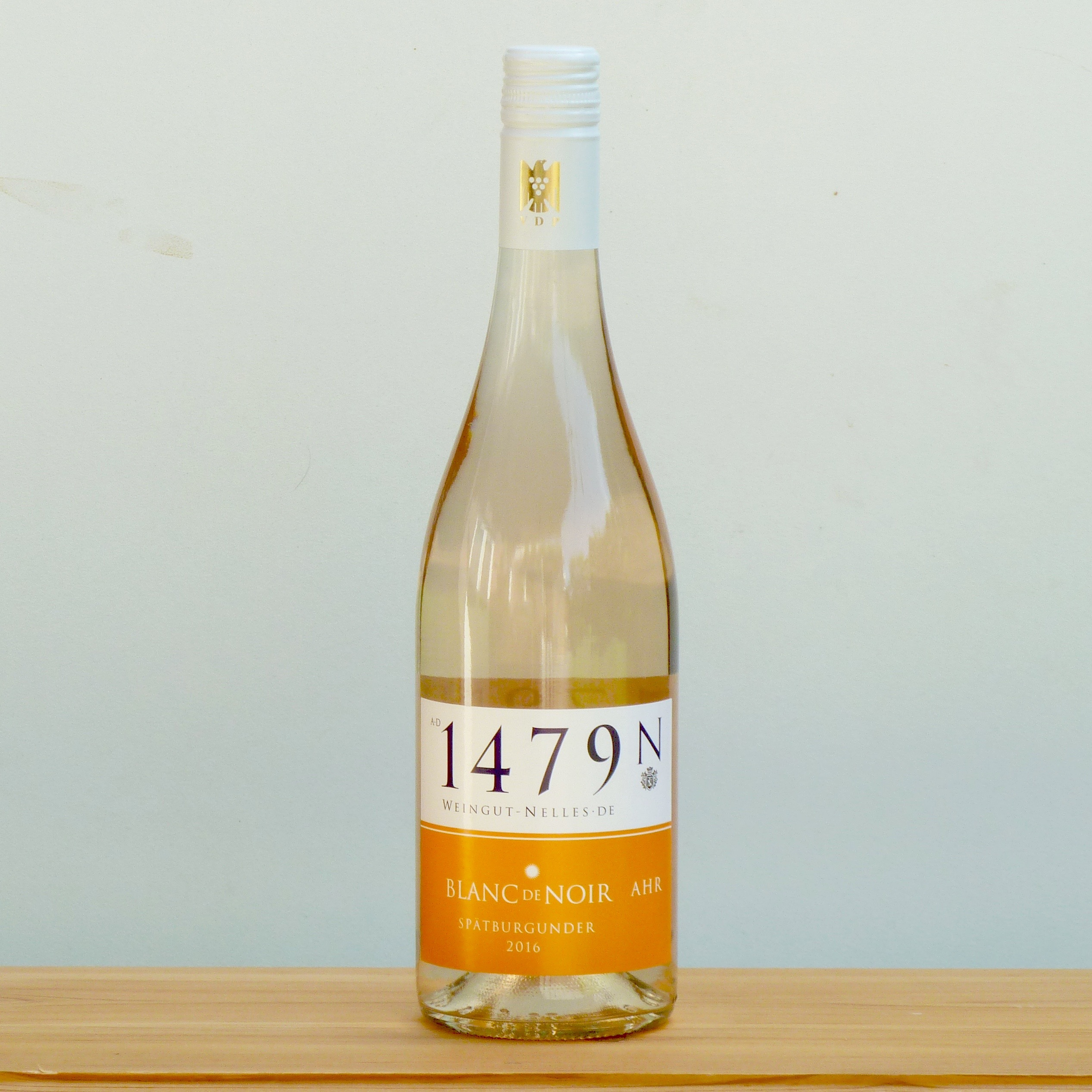 White wine from red grapes.